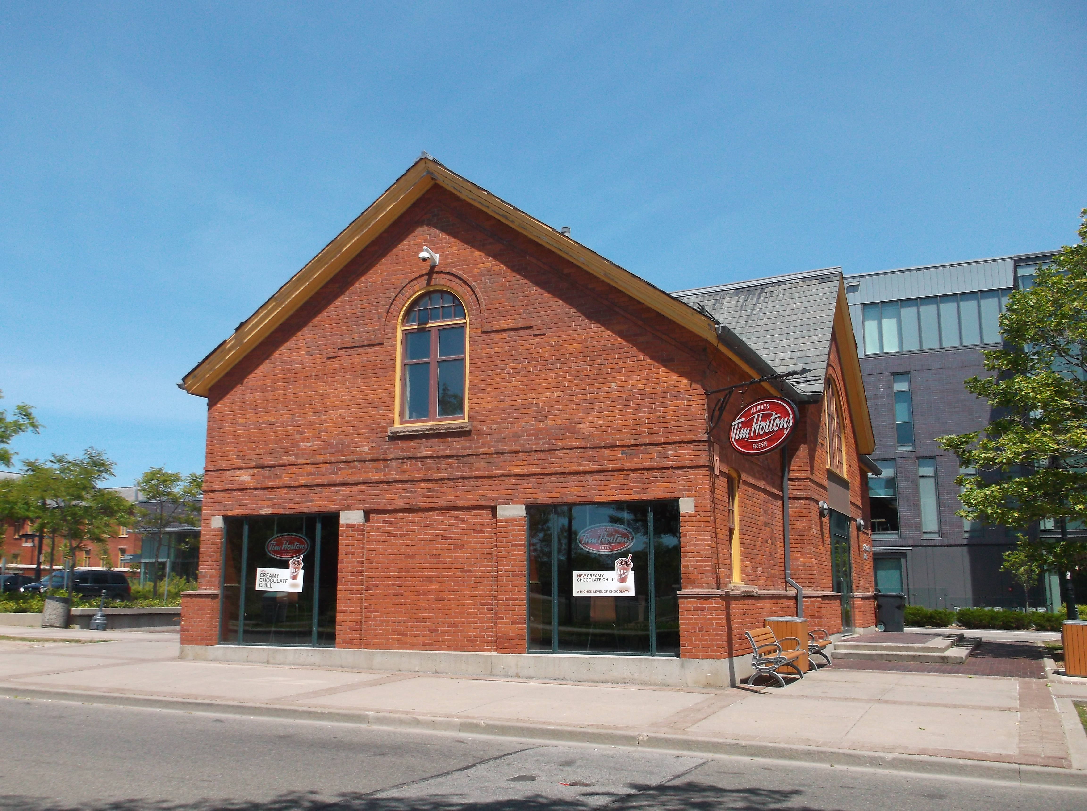 The Tim Hortons at the Lakeshore Campus of Humber College. The building was originally the carriage house for the Lakeshore Psychiatric Hospital.